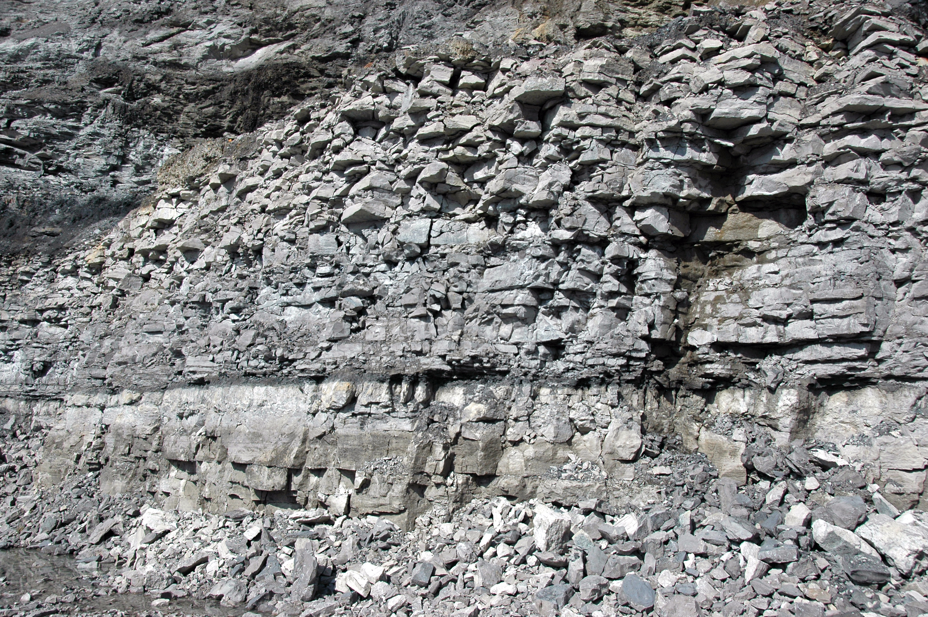 Limestones in the Mississippian of Ohio, USA. The Maxville Limestone is the only Middle to Late Mississippian-aged stratigraphic unit in Ohio. Its outcrop belt is not extensive - it principally occurs in Muskingum County and Perry County in eastern and southeastern Ohio. The Maxville Formation can also be found as cobbles and pebbles in the basal Sharon Formation (Lower Pennsylvanian), which disconformably overlies Ohio's Mississippian rocks. Paleohills, or erosional outliers, of Maxville Limestone have also been identified. Shown here is the working wall at an active quarry in Muskingum County, Ohio. The quarry targets Maxville Limestone and crushes it for use as road gravel, fill, rip-rap, and erosion-control blocks. The Maxville is 22 to 26 feet thick at this site. Rocks range from fossiliferous limestones (= moderately fine-grained, fossiliferous wackestones) to fossiliferous argillaceous limestone to fossiliferous calcareous shale. About 60 to 80 feet worth of Pottsville Group overburden has to be stripped away to access the Maxville Limestone interval. Stratigraphy: Maxville Limestone, Meramecian to Chesterian, Middle to Upper Mississippian Locality: East Fultonham Quarry (Shelly Materials, Incorporated), western side of Rt. 345/Saltillo Road, southwest of the town of East Fultonham & south-southeast of the town of Fultonham, southwestern Newton Township, far-southwestern Muskingum County, eastern Ohio, USA (39° 50' 50.76" North latitude, 82° 08' 08.73" West longitude - this portion of the quarry has since been filled in)